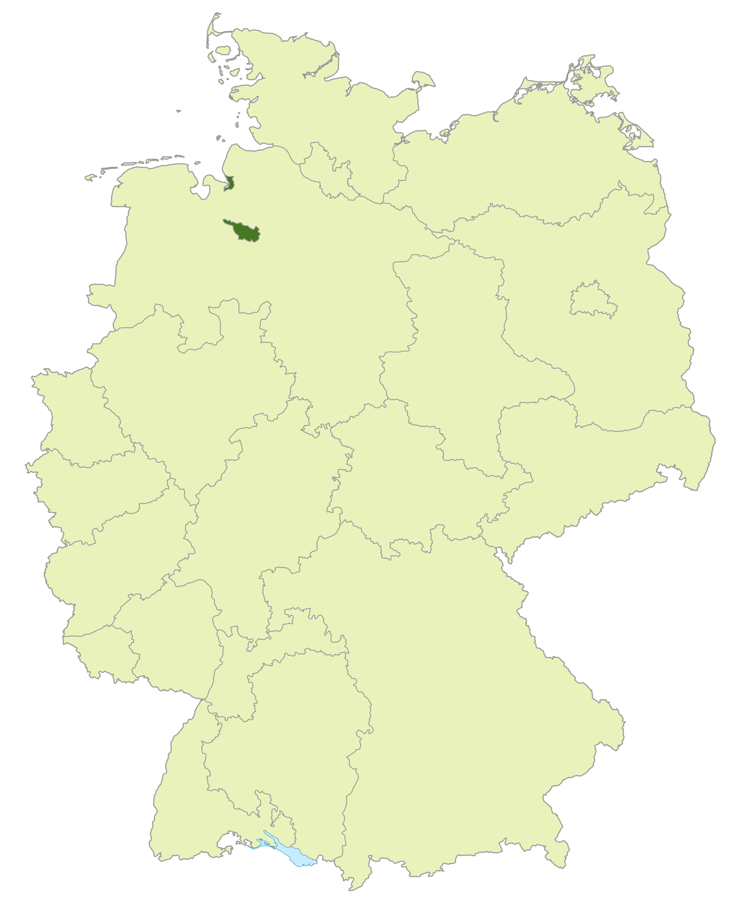 Map of regional soccer association Bremen, Germany